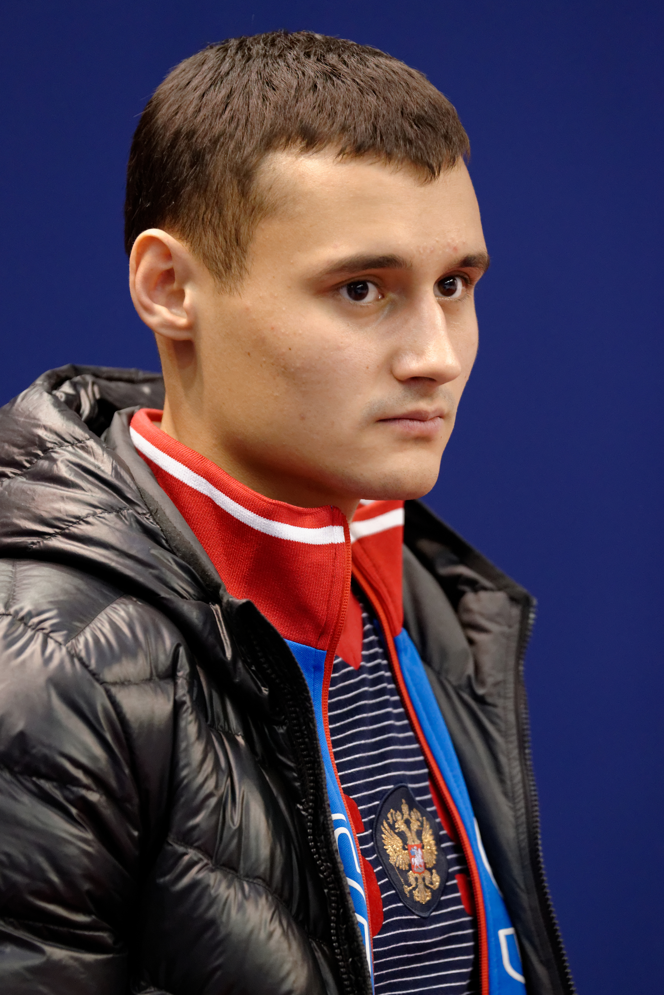 Russia's Timur Safin on qualifications day at the 2015 Challenge International de Paris, a men's foil World Cup competition.